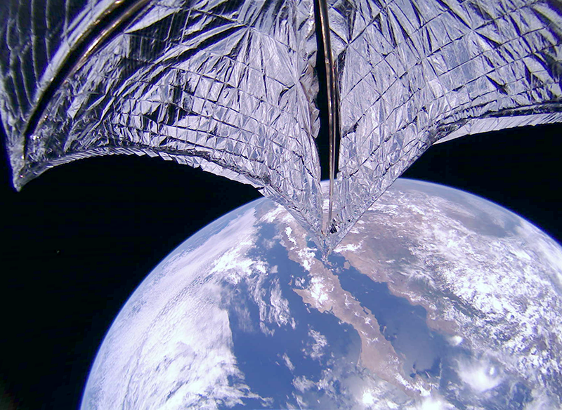 This image was taken during the LightSail 2 sail deployment sequence on 23 July 2019 at 11:48 PDT (18:48 UTC). Baja California and Mexico are visible in the background. LightSail 2's dual 185-degree fisheye camera lenses can each capture more than half of the sail. This image has been de-distorted and color corrected.